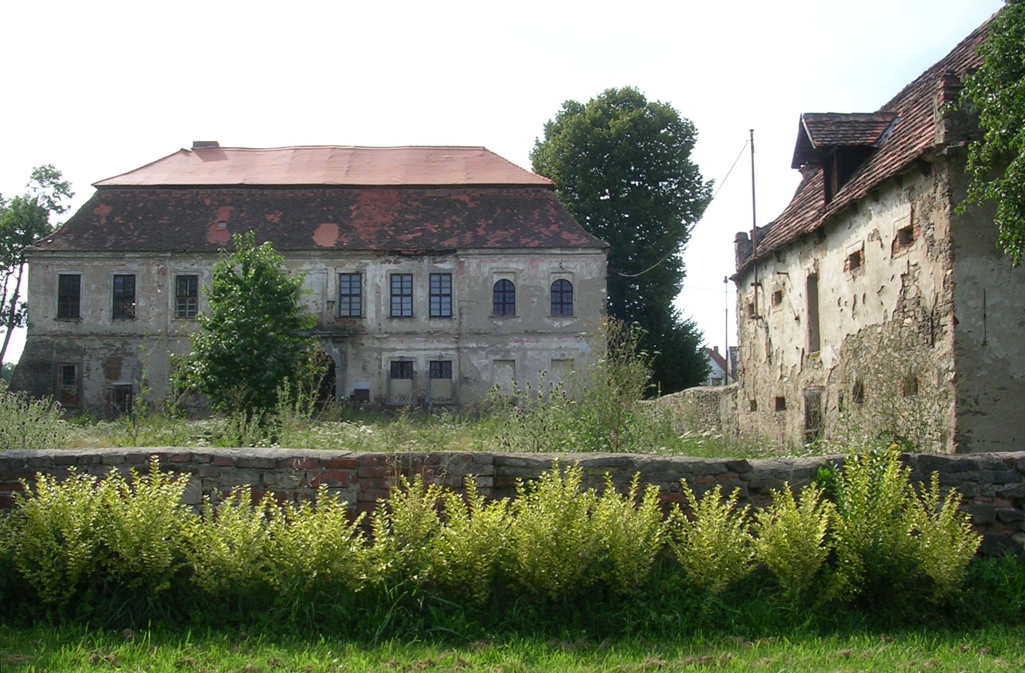 Příčovy, Příbram District, Central Bohemian Region, the Czech Republic. A castle. - Google Maps - Google Earth